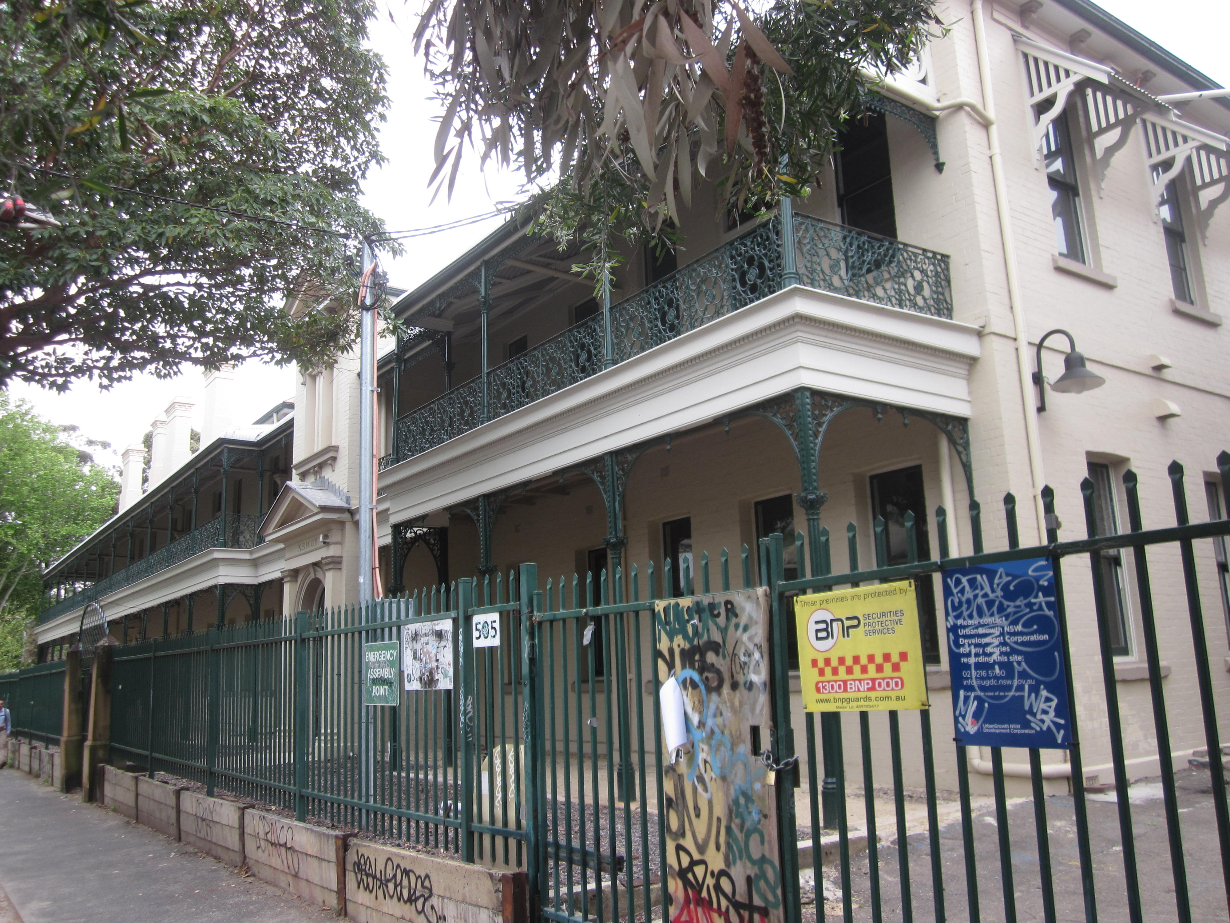 Eveleigh Chief Mechanical Engineer's office, 505 Wilson Street, Eveleigh, New South Wales is listed on the New South Wales State Heritage Register. Front of the building, facing Wilson Street.